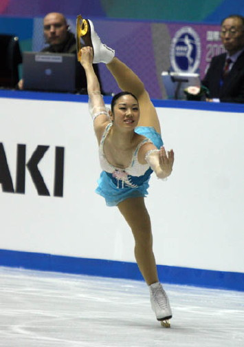 Nakano performs a cross-grab Biellman spiral during her long program at the 2008 NHK Trophy.